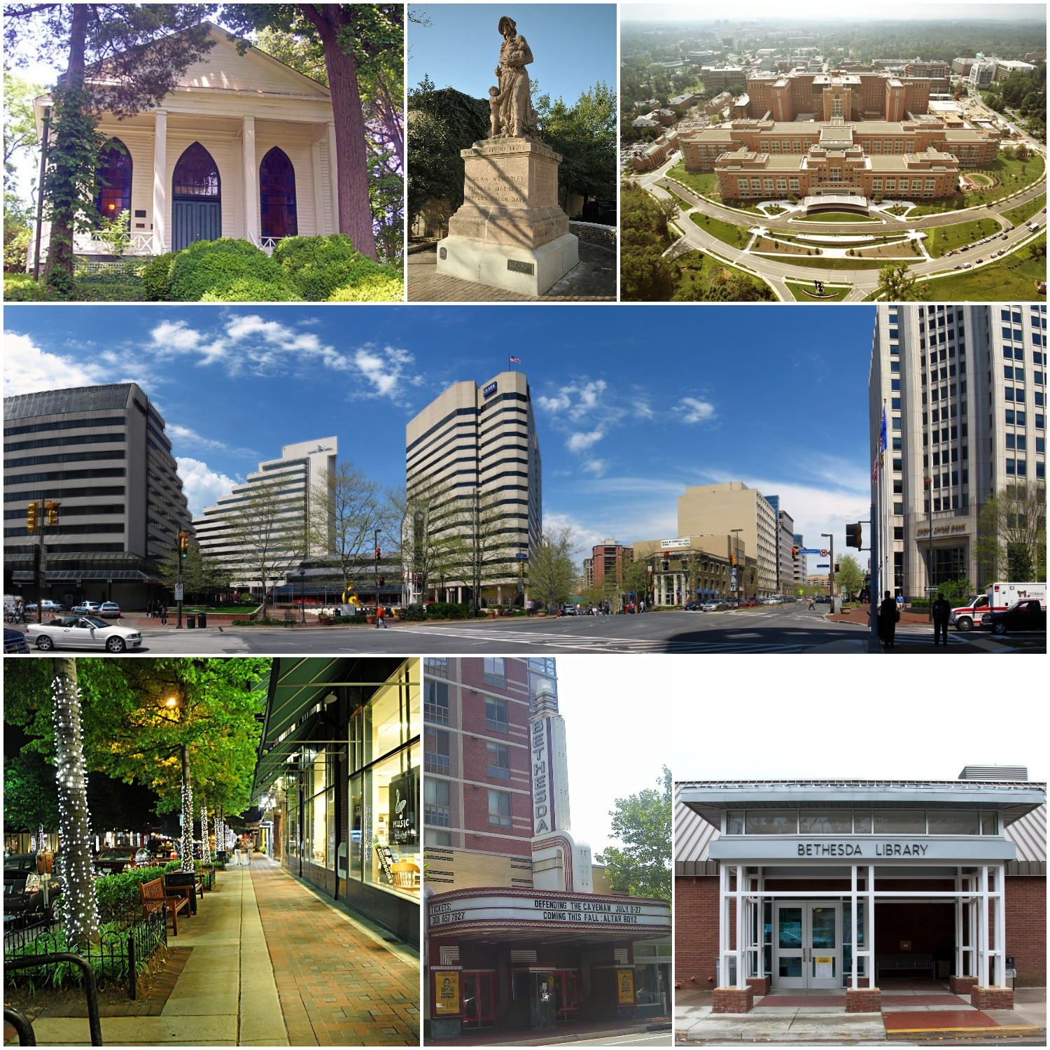 Images of Bethesda, Maryland, including the Bethesda Meetinghouse, Madonna of the Trail statue, NIH campus, downtown area, Bethesda Avenue, Bethesda Theater, and Bethesda Library